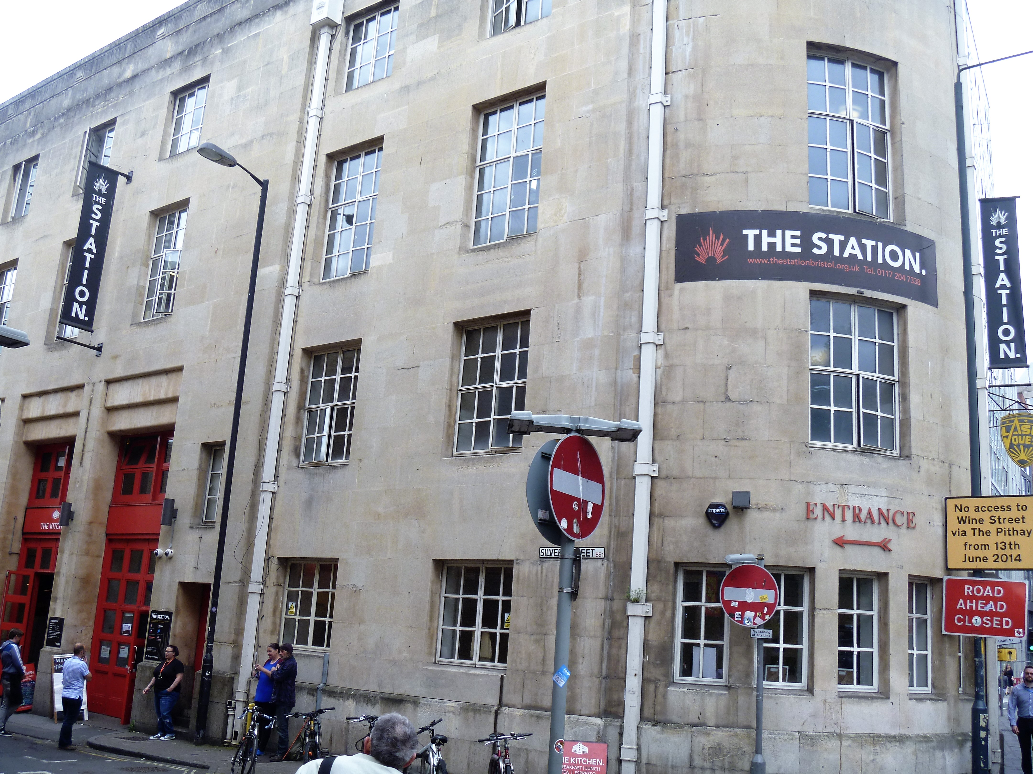 The Station